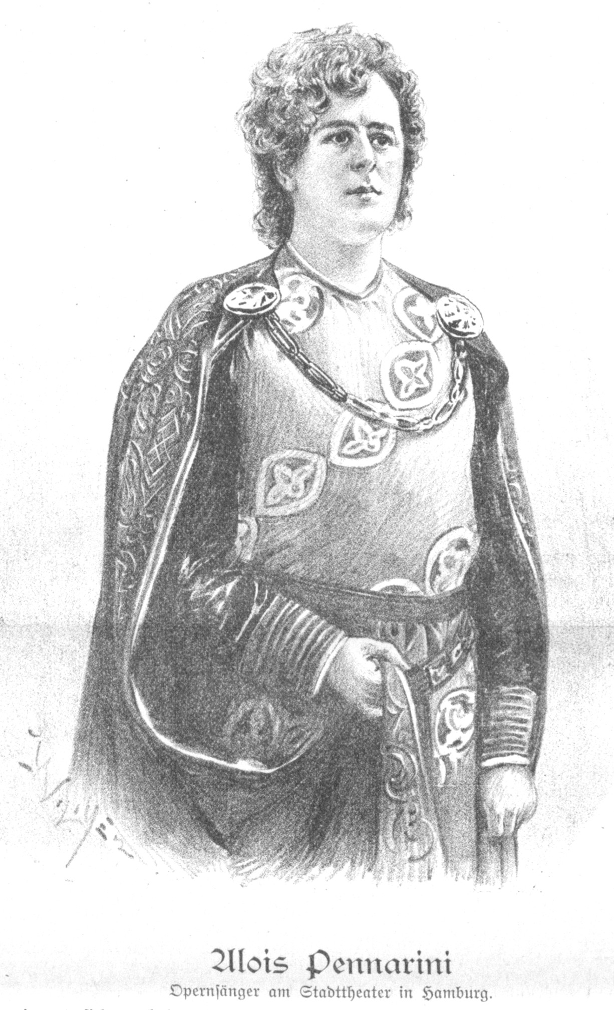 Portrait of Aloys Pennarini (1870-1927), Austrian singer and a director of a theater in Reichenberg (now Liberec, Czech Republic)